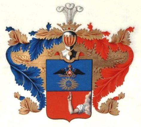 Coat of Arms of Sherwood-Vernyi